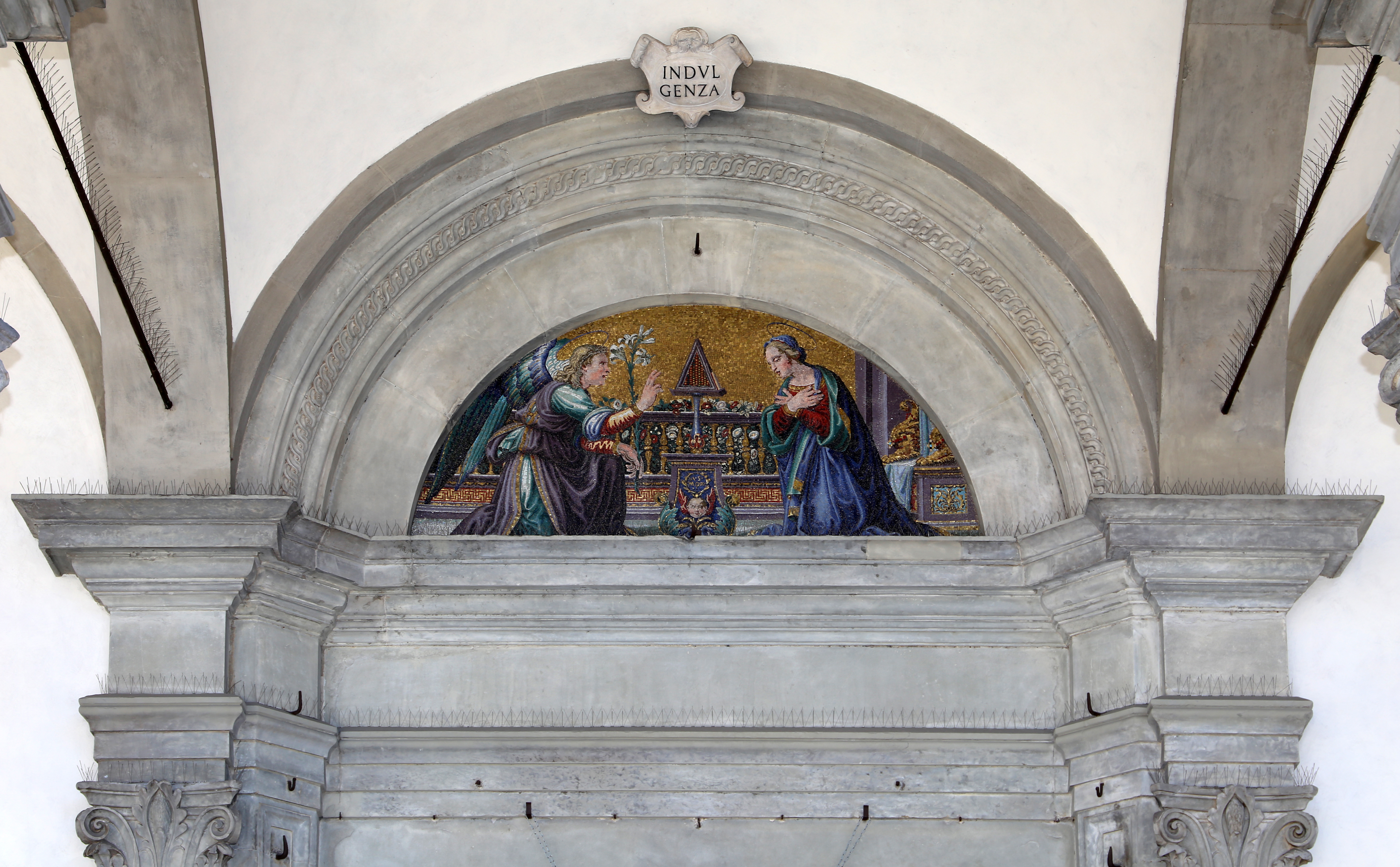 Santissima Annunziata (Florence) - Front Loggia